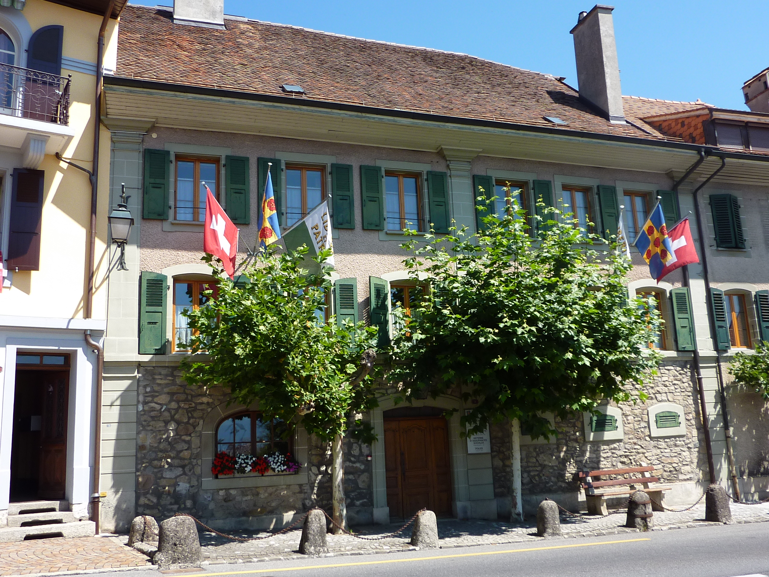 Townhall of Chexbres (Vaud)